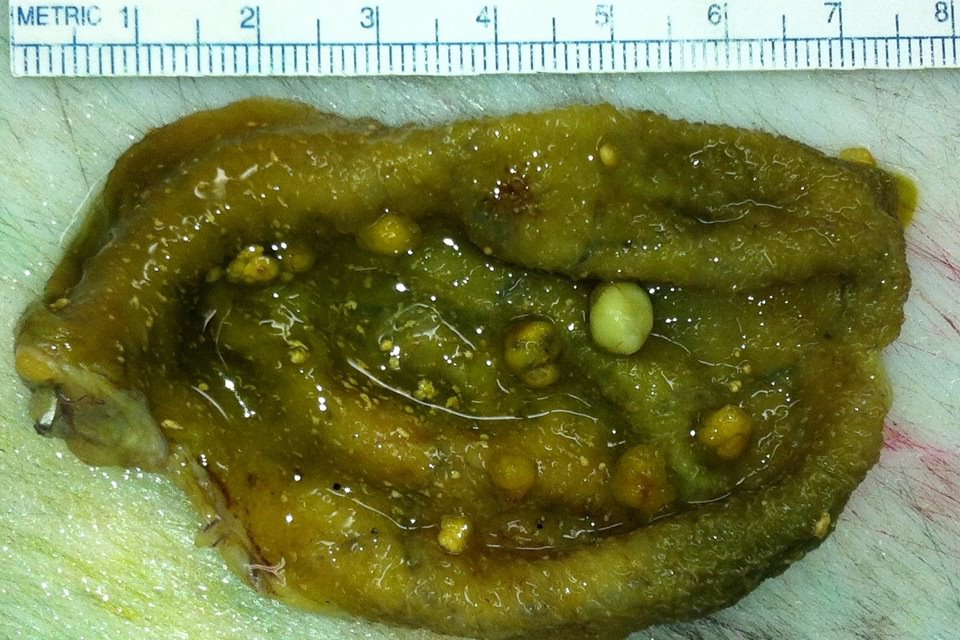 Cholesterol Polyps of Gallbladder.